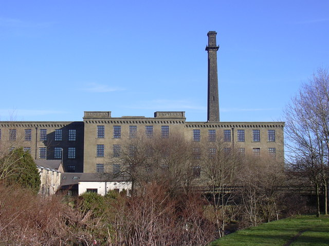 Hardman Brothers Mill Now a business centre.